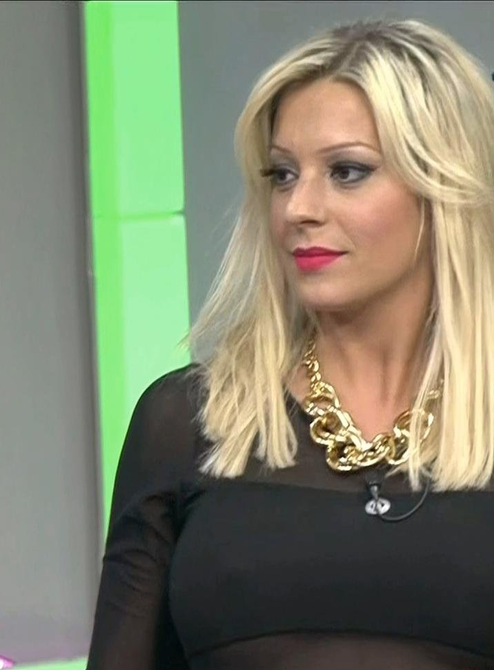 Noelia Marzol durante una entrevista televisiva